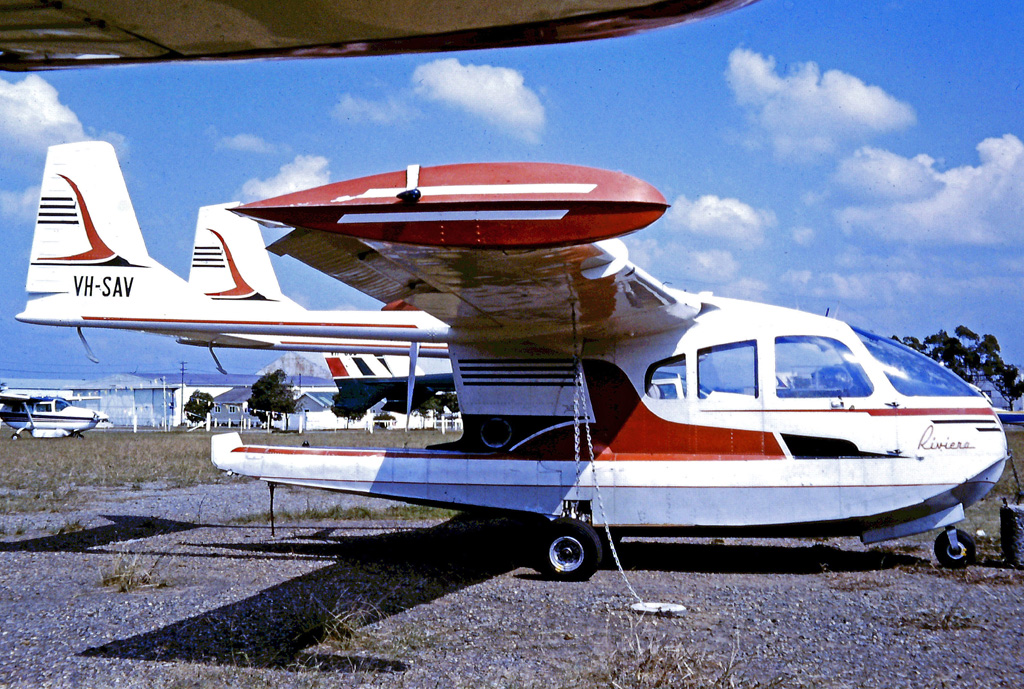 SIAI-Marchetti FN.333 Riviera VH-0SAV at Sydney (Bankstown) Airport in 1971